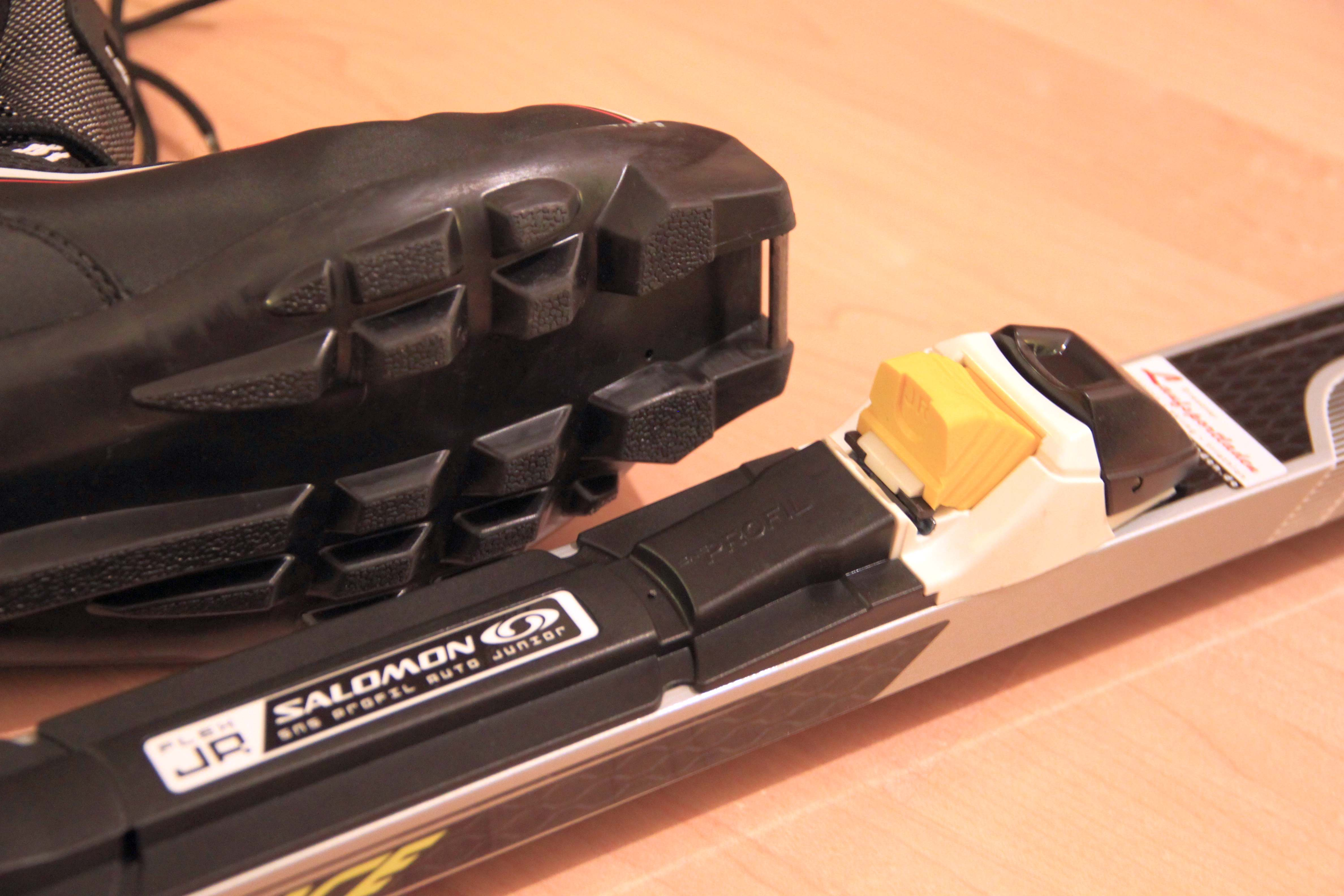 SNS Profil Binding (Salomon Nordic System)